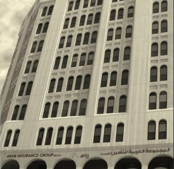 Arig building Bahrain